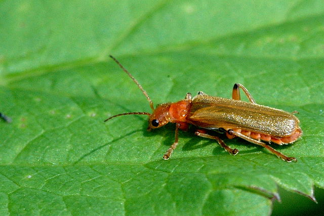 Picture taken in Commanster, Belgian High Ardennes . Species: Cantharis cryptica/pallida